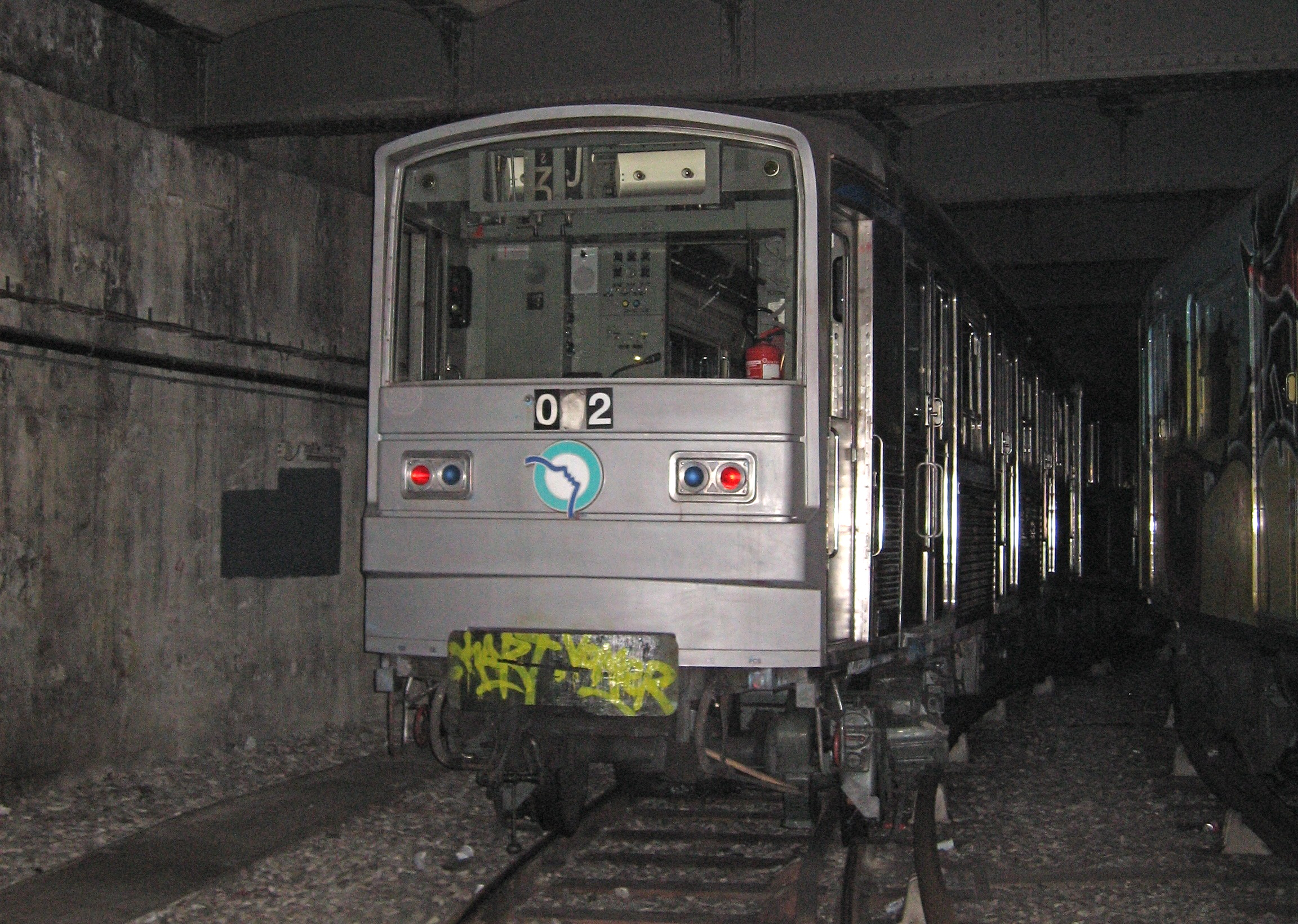 The Zébulon, prototype of the MF 67. Journées du Patrimoine RATP, 16 and 17 September 2006.